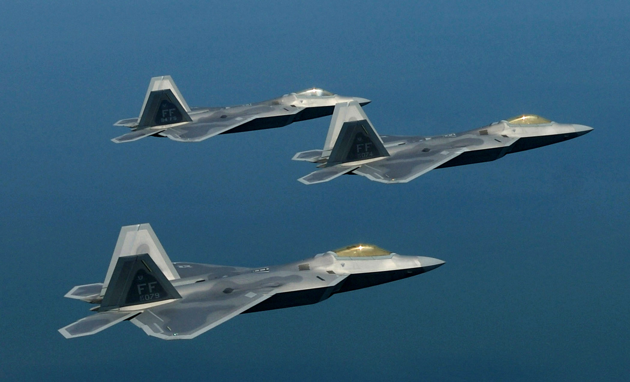 F-22 Raptors fly in formation. The Air Force's first four pilots to go directly to the F-22 without previous fighter experience are currently training at Luke Air Force Base, Ariz., in preparation for taking on the F-22.